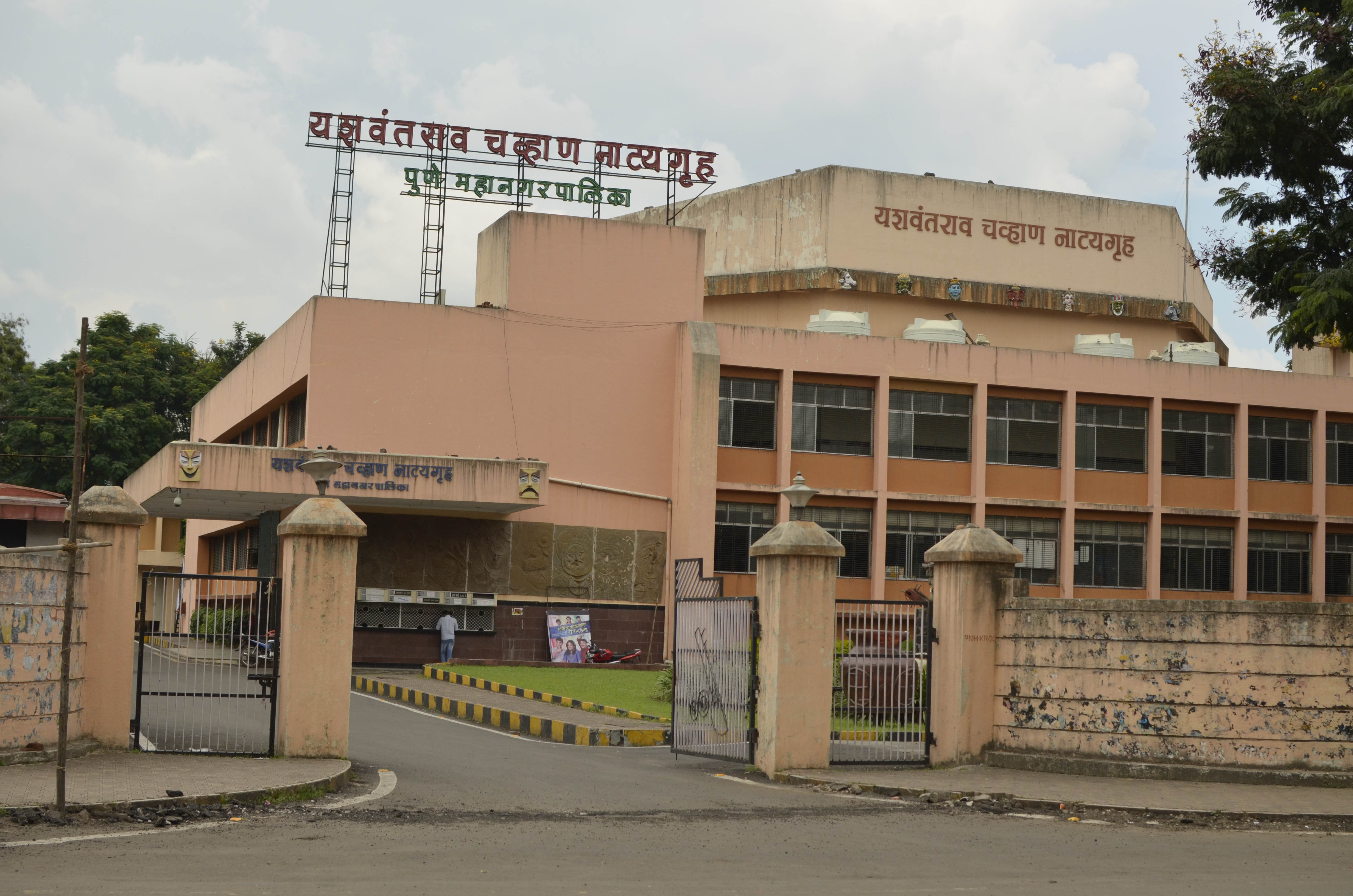 Yashwantrao Chavan Natyagruha, Pune Named after the First Chief Minister of Maharashtra State is a place where All Classical Music and Dance events Take place.